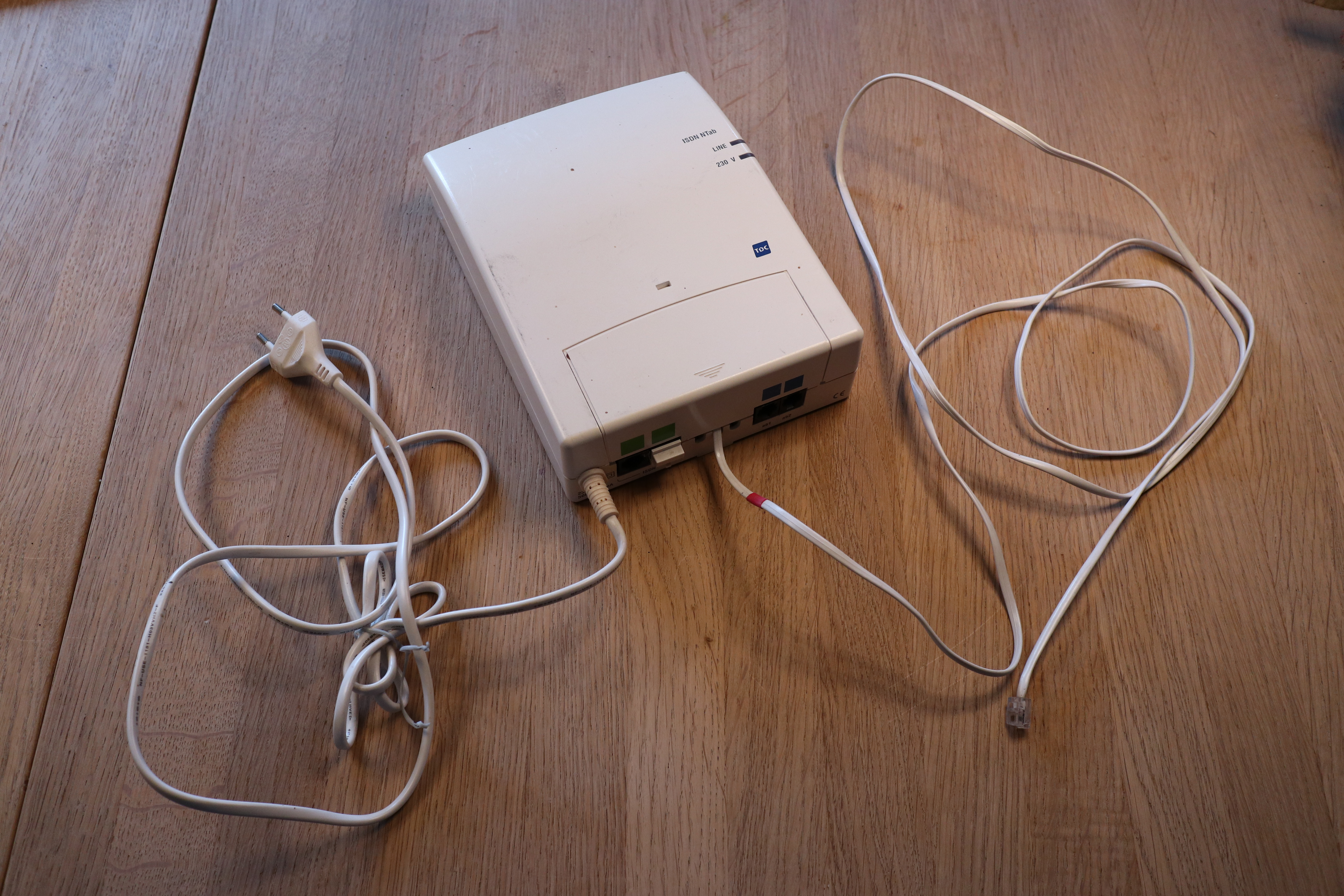 Danish ISDN NTab adapter. Connections from left to right: 230 volt power supply with Europlug connector 2 8P8C modular connector sockets for ISDN S0 bus (marked with green) 3 small holes with one cable with 6P2C modular connector for landline connection 2 6P2C modular connector socets for PSTN telephone equipment (marked with blue)